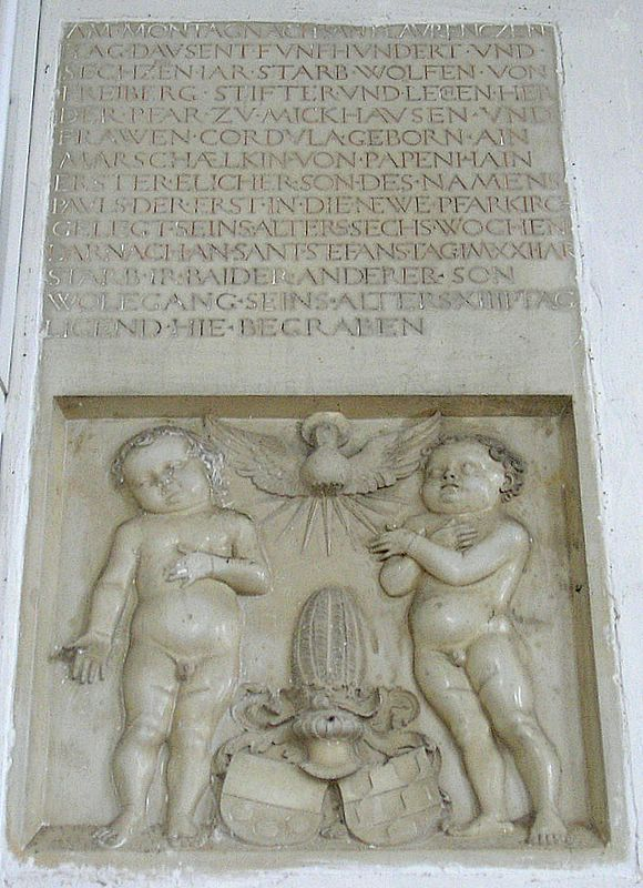 Parish church St. Wolfgang (Mickhausen, Bavaria, Germany). Epitaph Paul and Wolfgang von Freyberg (ca. 1520).